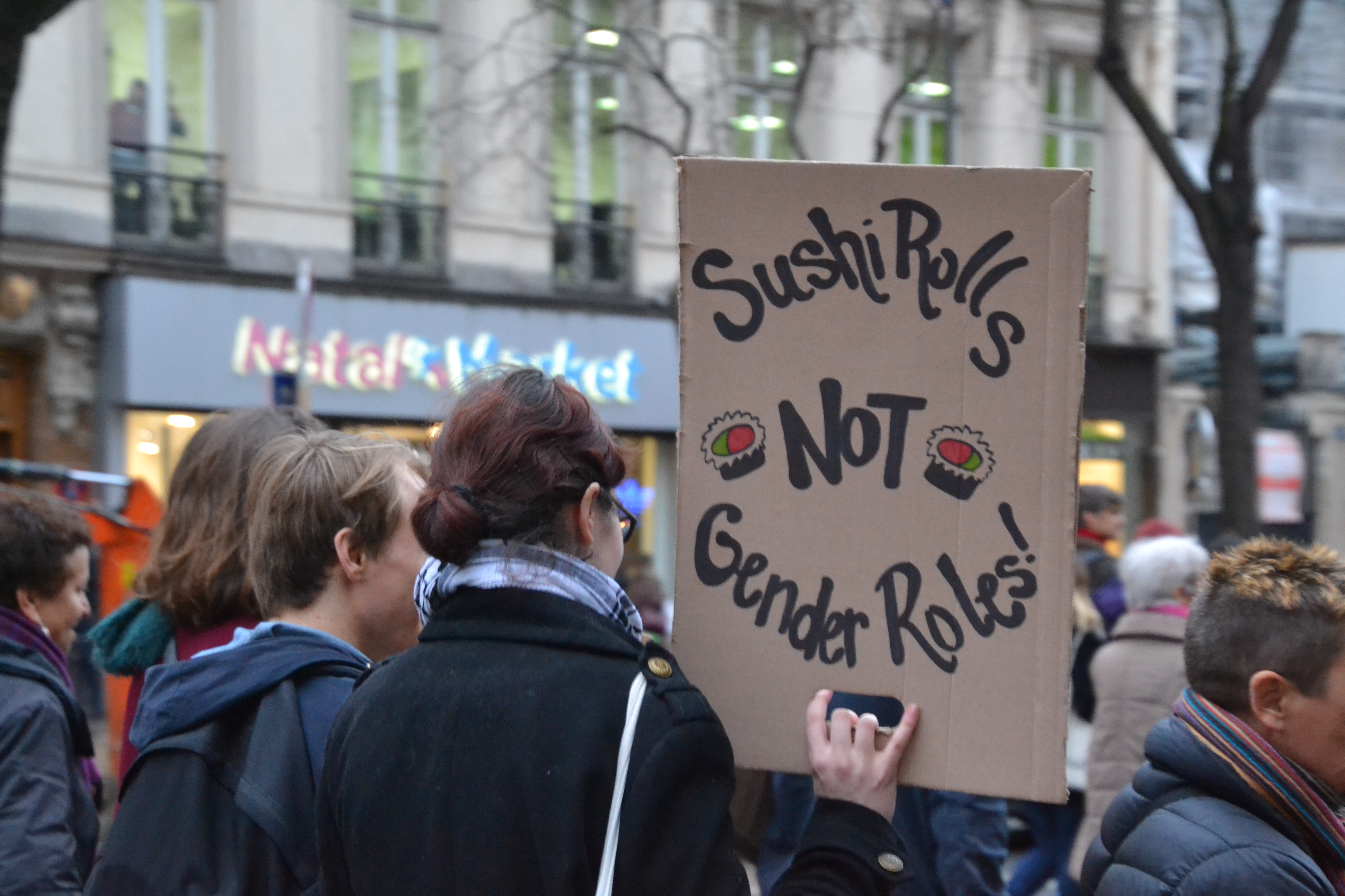 French demonstration in Paris - Women rights Manif 8 mars 2017 Paris